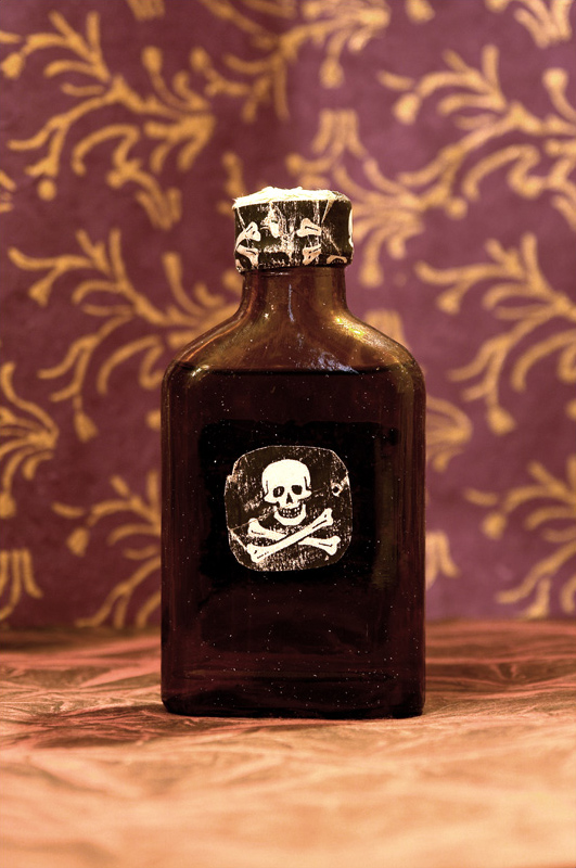 Bottle of poison.